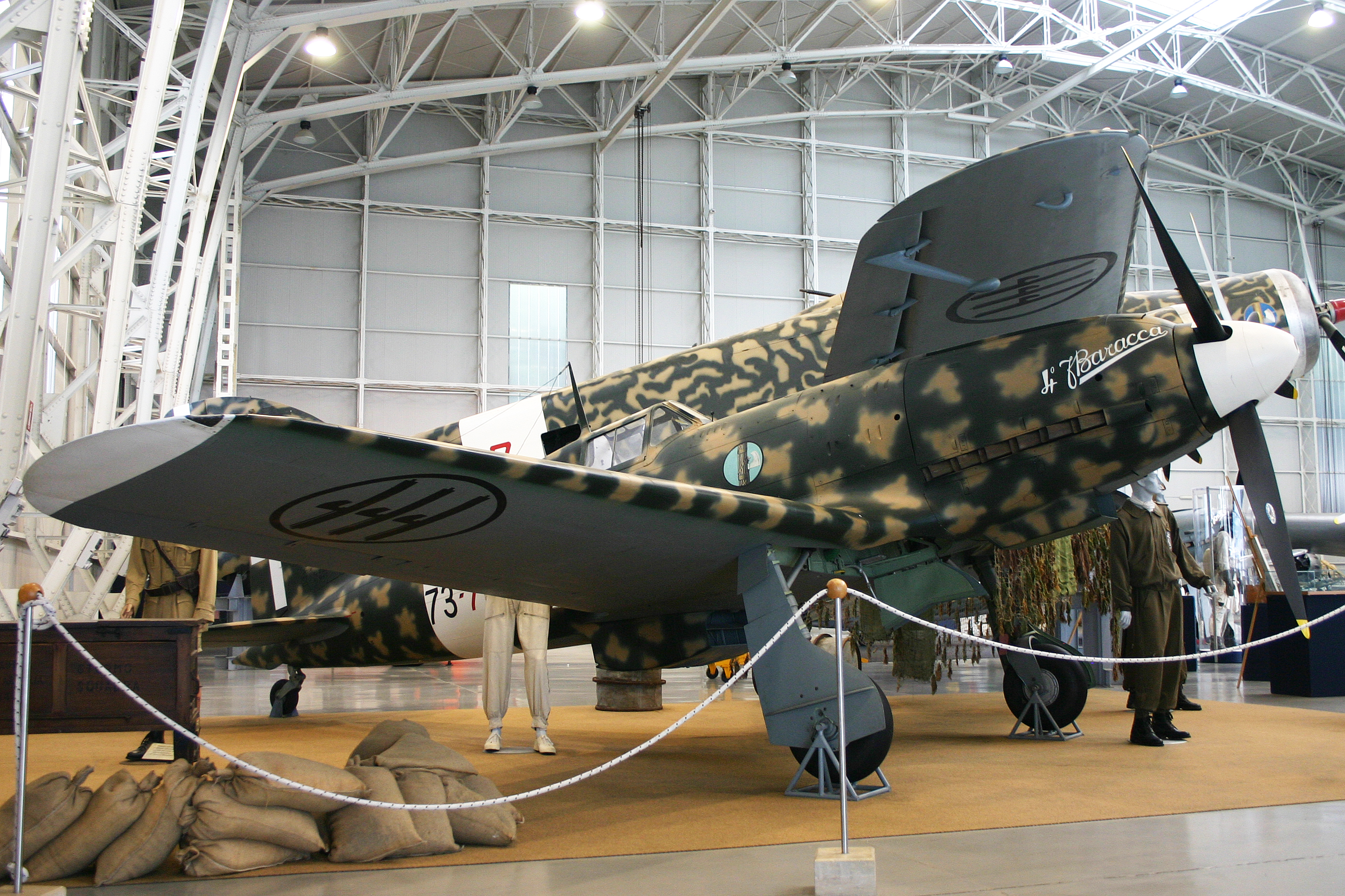 Displayed in Hangar BADONI.